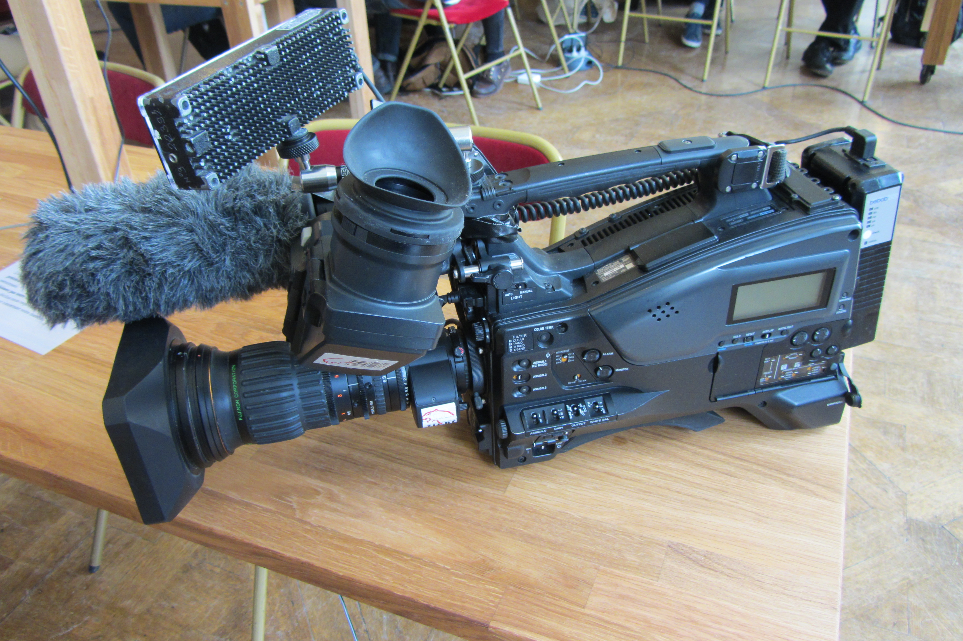 Sony Professional XDCAM® HD422 Camcorder PWD-850